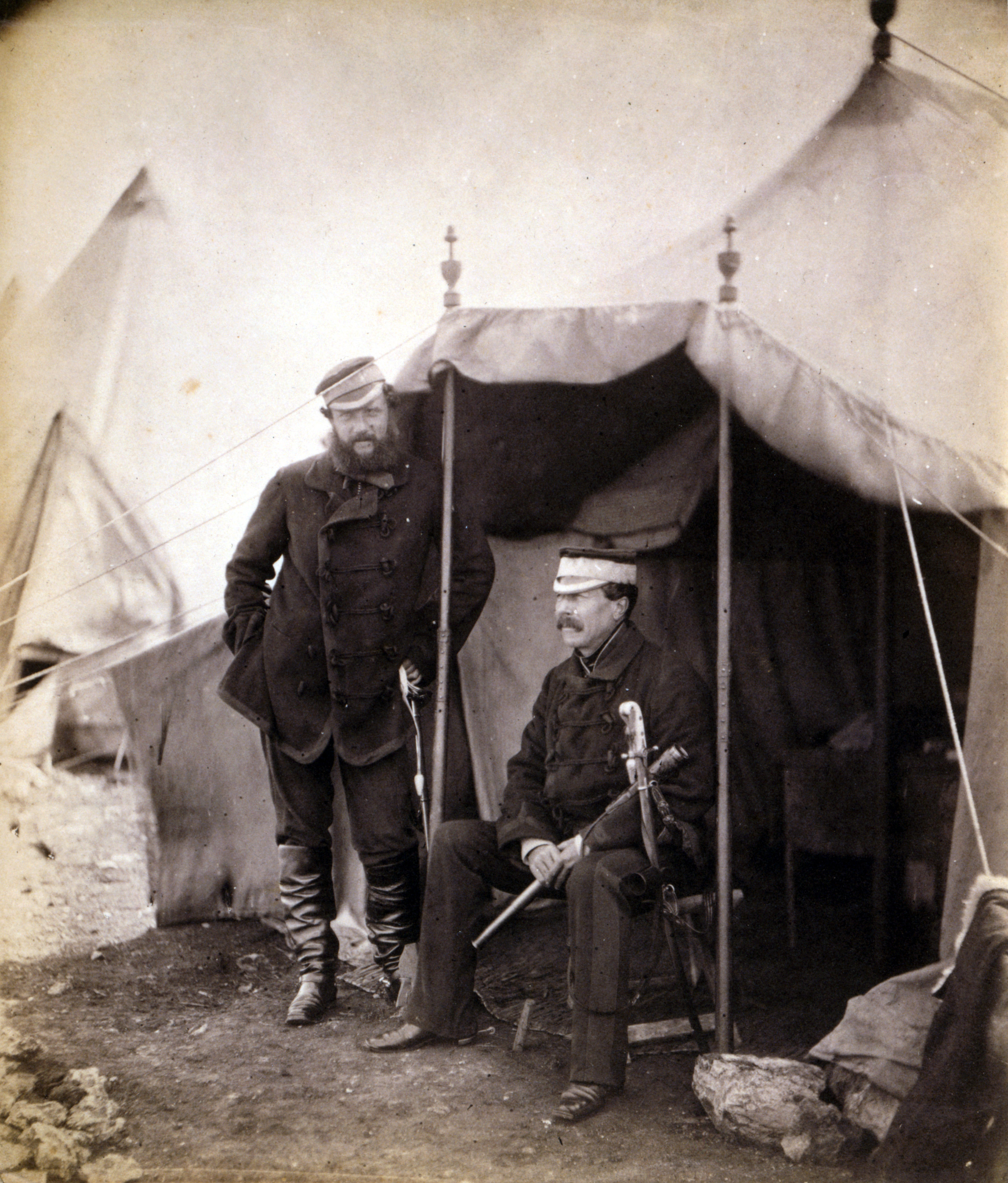 Lieutenant General Sir John Campbell & Captain Hume, his aide-de-camp, the general sitting LCCN2001696042